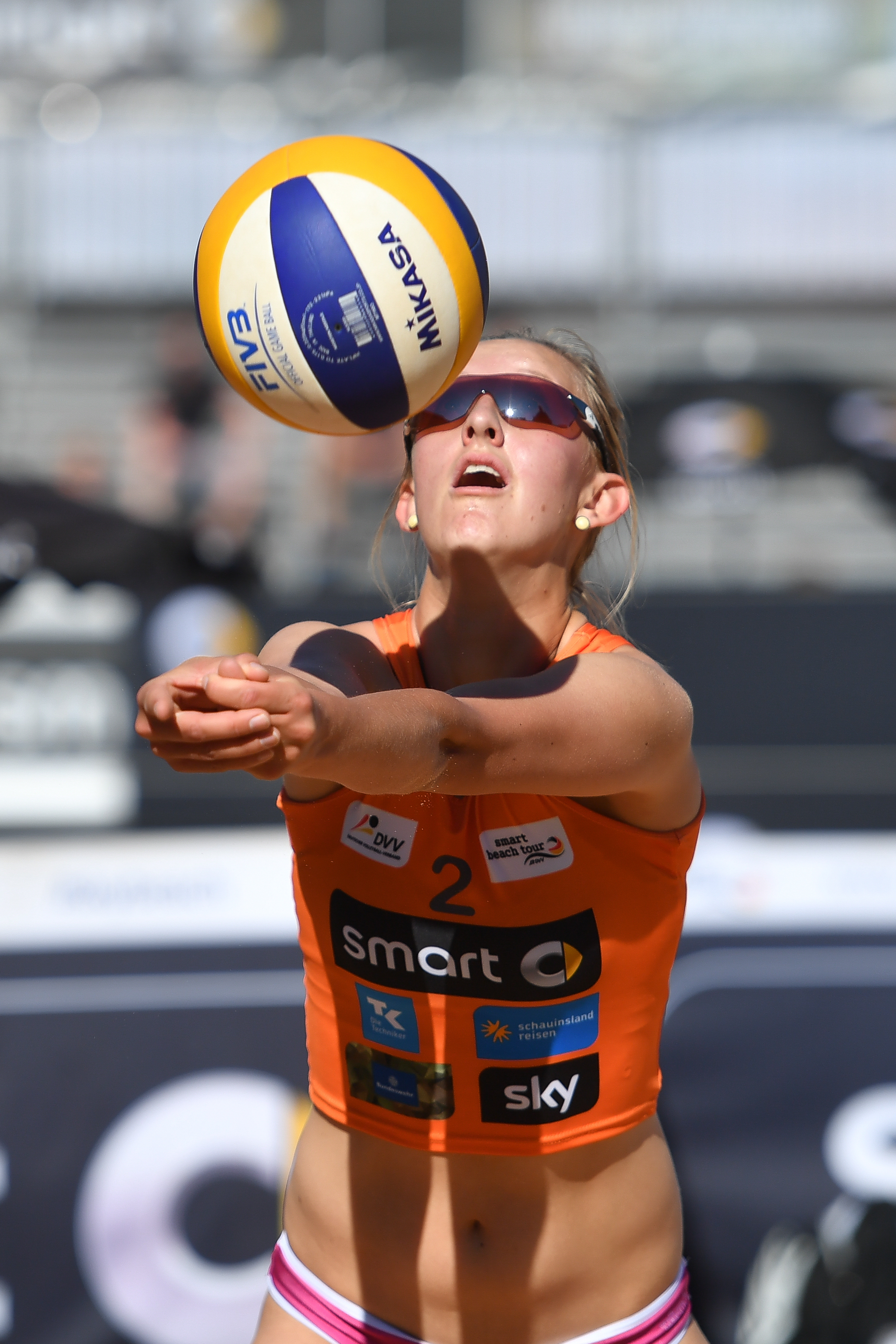 27/5/2017, Nuremberg, Germany, Sports, beach volleyball, smart beach cup Nuernberg.